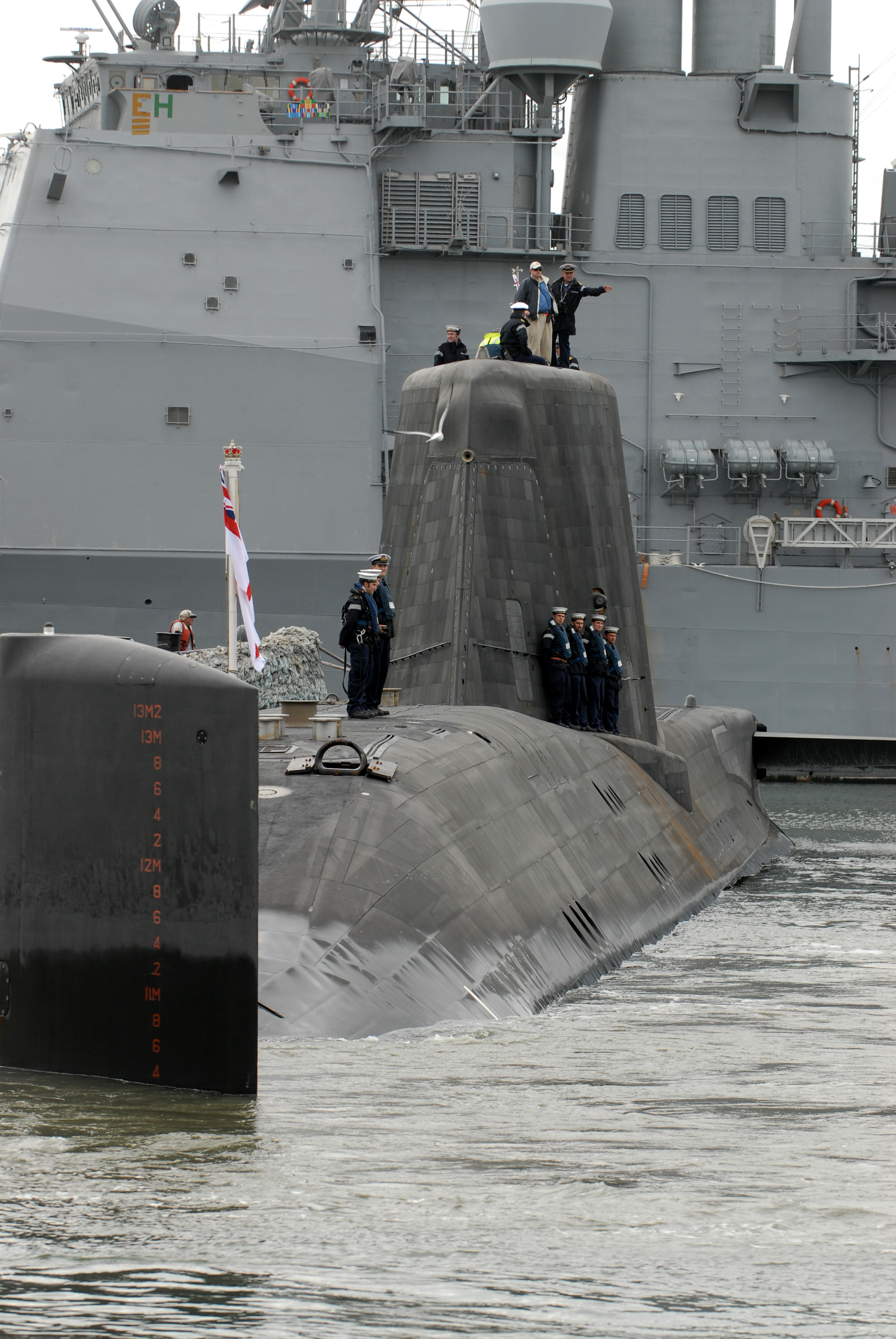 NORFOLK (Nov. 28, 2011) Sailors aboard the Royal Navy submarine HMS Astute (S119) stand in formation topside as the ship is maneuvered into position upon its arrival at Naval Station Norfolk. Astute is the first in a new class of British nuclear submarines that sets the standard for the Royal Navy in terms of weapons load, communication facilities and stealth. Commissioned on Aug. 27, 2010, the 323-foot, 7,400-ton submarine carries a crew of 98 officers and enlisted personnel, and can travel at speeds of 29-plus knots while submerged. (U.S. Navy photo by Mass Communication Specialist 1st Class Todd A. Schaffer/Released)